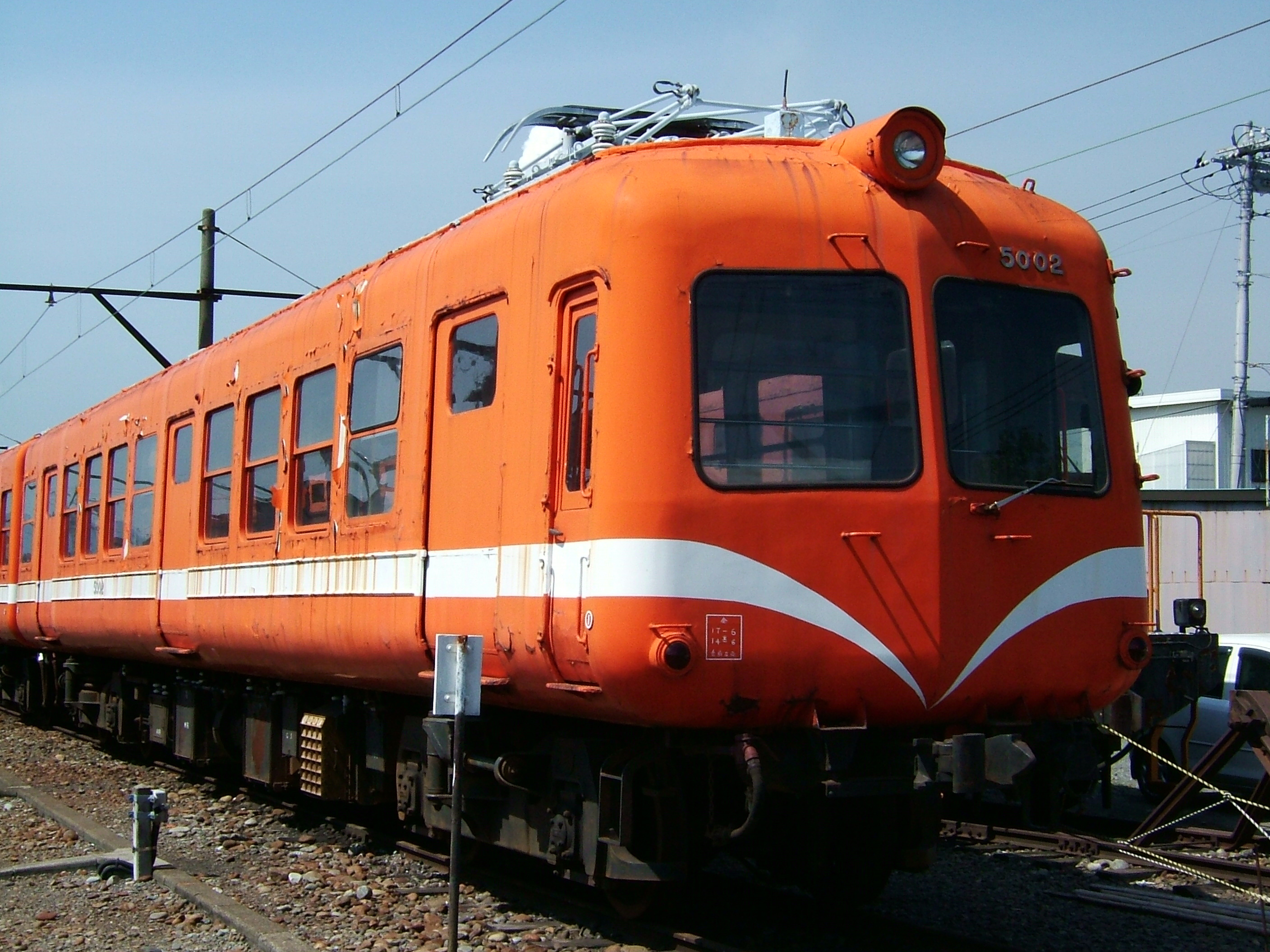 Gakunan Railway type 5000 (Former Tokyo Kyuko Electric Railway type 5000)